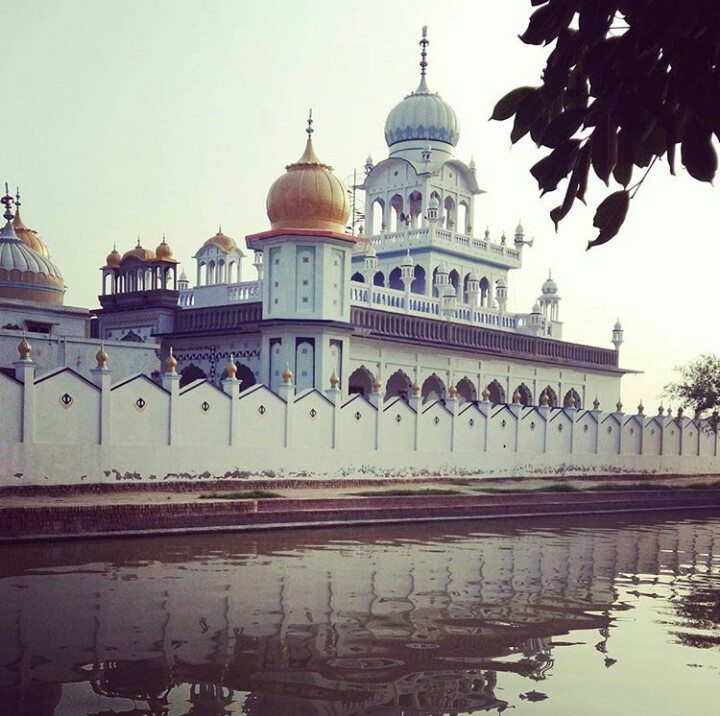 gurdwara